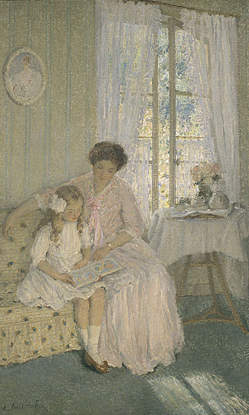 The Lesson